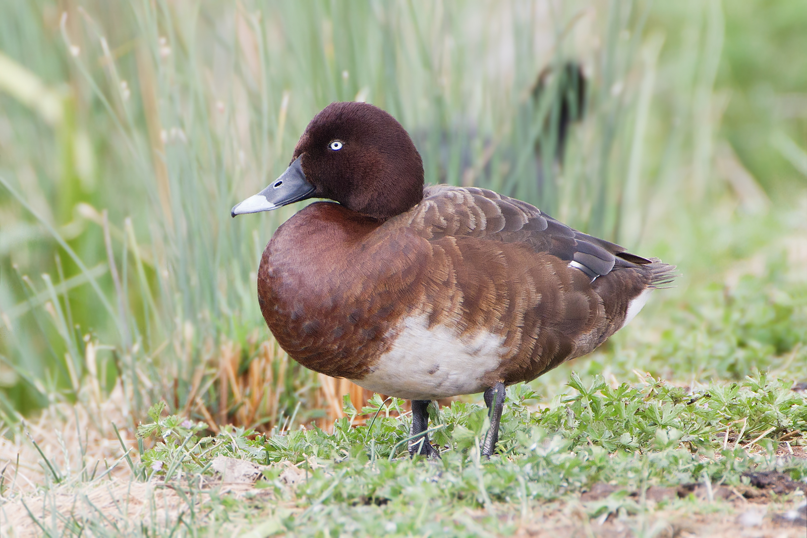 Hardhead (Aythya australis) male, Lake Dulverton, Oatlands, Tasmania, Australia